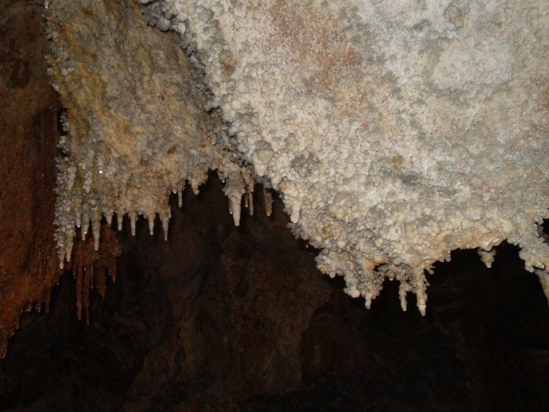 Speleothem in Rákóczi No. 1. Cave